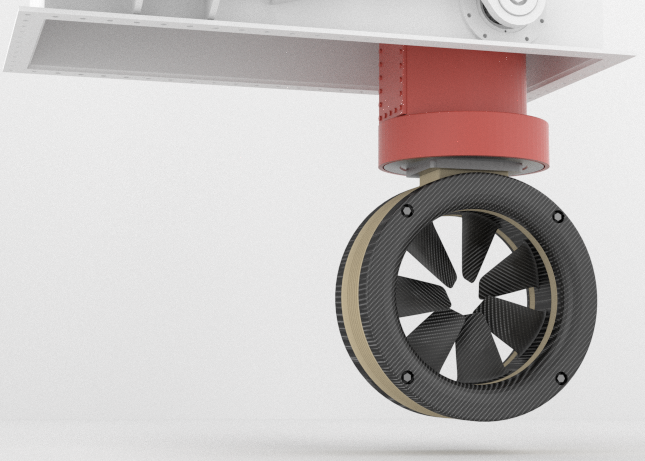 A rim-driven thruster mounted on a swing-out and azimuthing unit (design by silentdynamics GmbH)